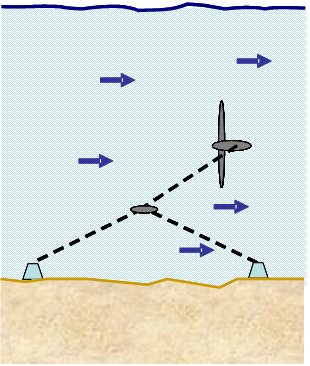 Artwork illustrating cable tethered mounting system for tidal turbine